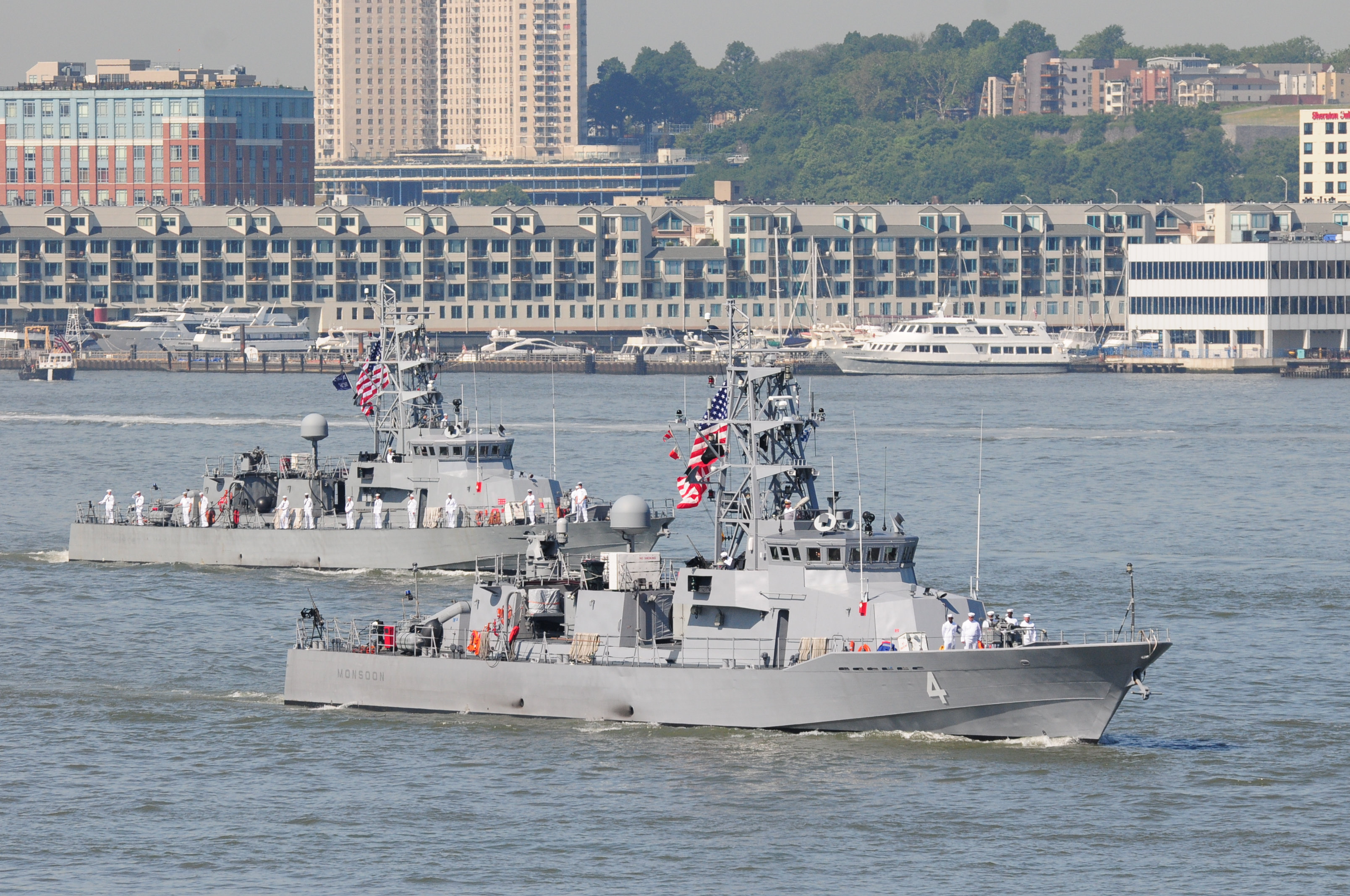 NEW YORK (May 26, 2010) The Cyclone-class coastal patrol ships USS Tempest (PC 2), left, and USS Monsoon (PC 4) make their way up the Hudson River en route to Fleet Week New York 2010. Approximately 3,000 Sailors, Marines and Coast Guardsmen are participating in the 23rd Fleet Week New York, which will take place May 26 through June 2. Fleet Week has been New York City's celebration of the sea services since 1984. (U.S. Navy photo by Mass Communication Specialist 1st Class Monique K. Hilley/Released)